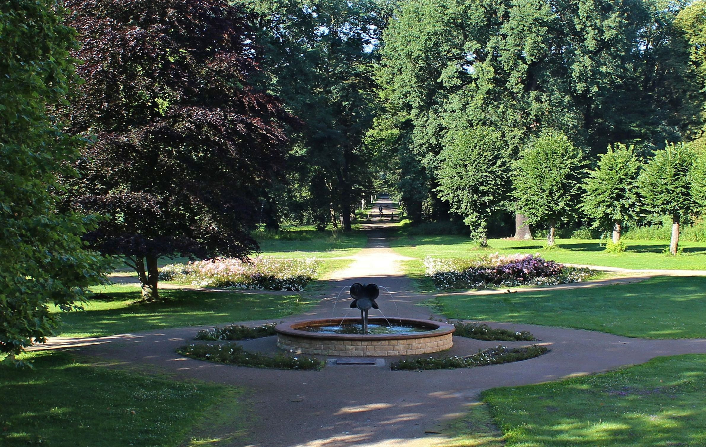 The Park of Castle Elsterwerda.